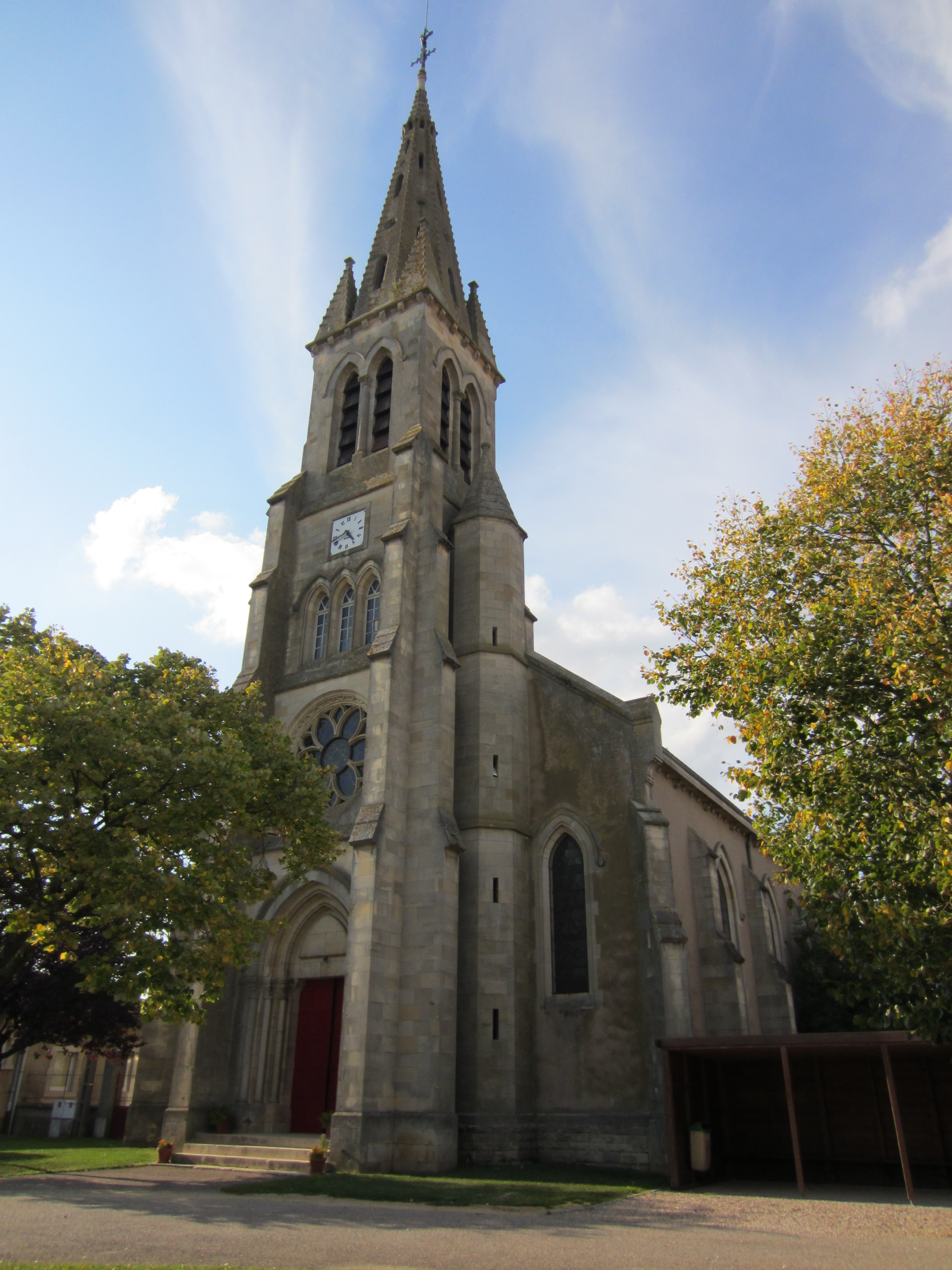 Description nouvelle eglise Flirey Date29 September 2011Sourcemon appareil photoAuthorAimelaimePermission (Reusing this file) nouvelle eglise Flirey